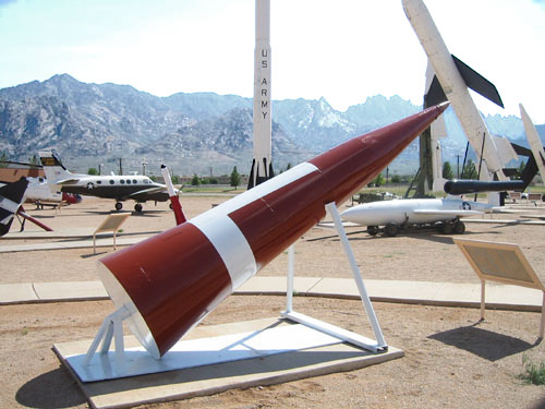 The HIBEX rocket. From the source: This was an experimental program to develop high acceleration booster technology. The name is an acronym for High Boost Experiment. The program purpose was to develop a motor for the Sprint missile which was to be an anti-ballistic missile interceptor.